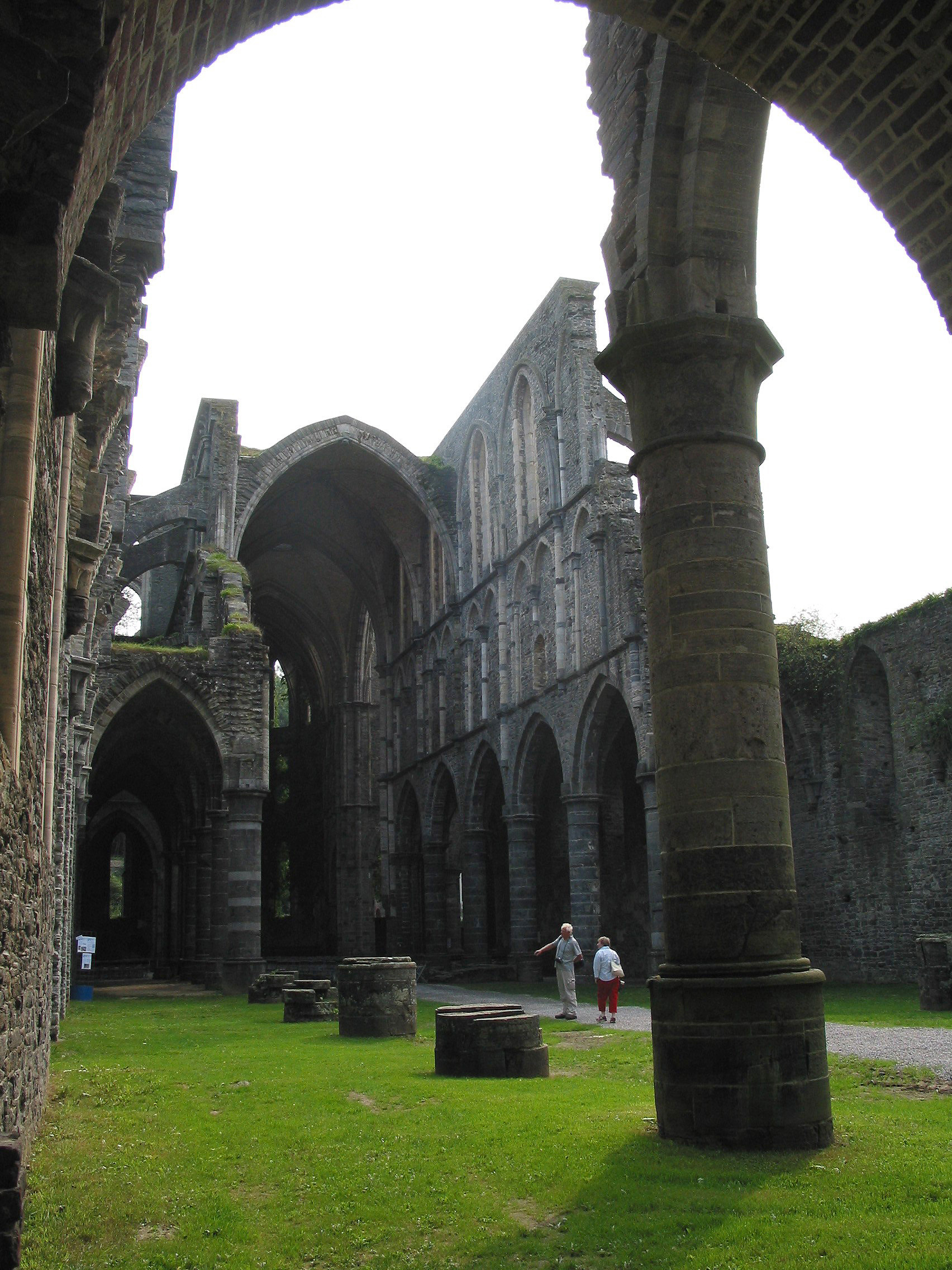 Villers-la-Ville (Belgium), northern aisle and nave of the abbey church ruins (XIIIth century).